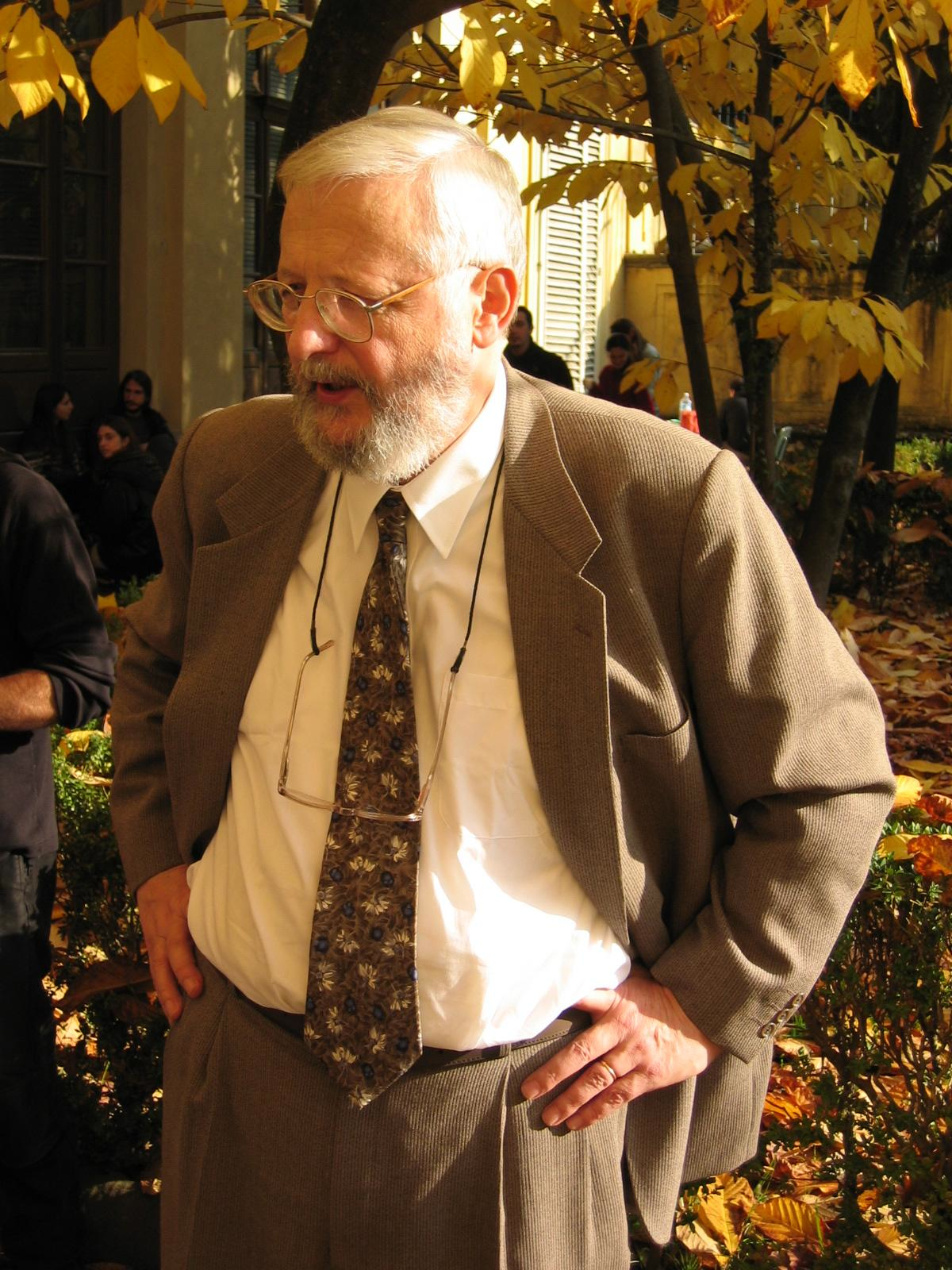 William Lawvere at Ramifications of Category Theory, Firenze, November 2003 Other information By Andrej Bauer